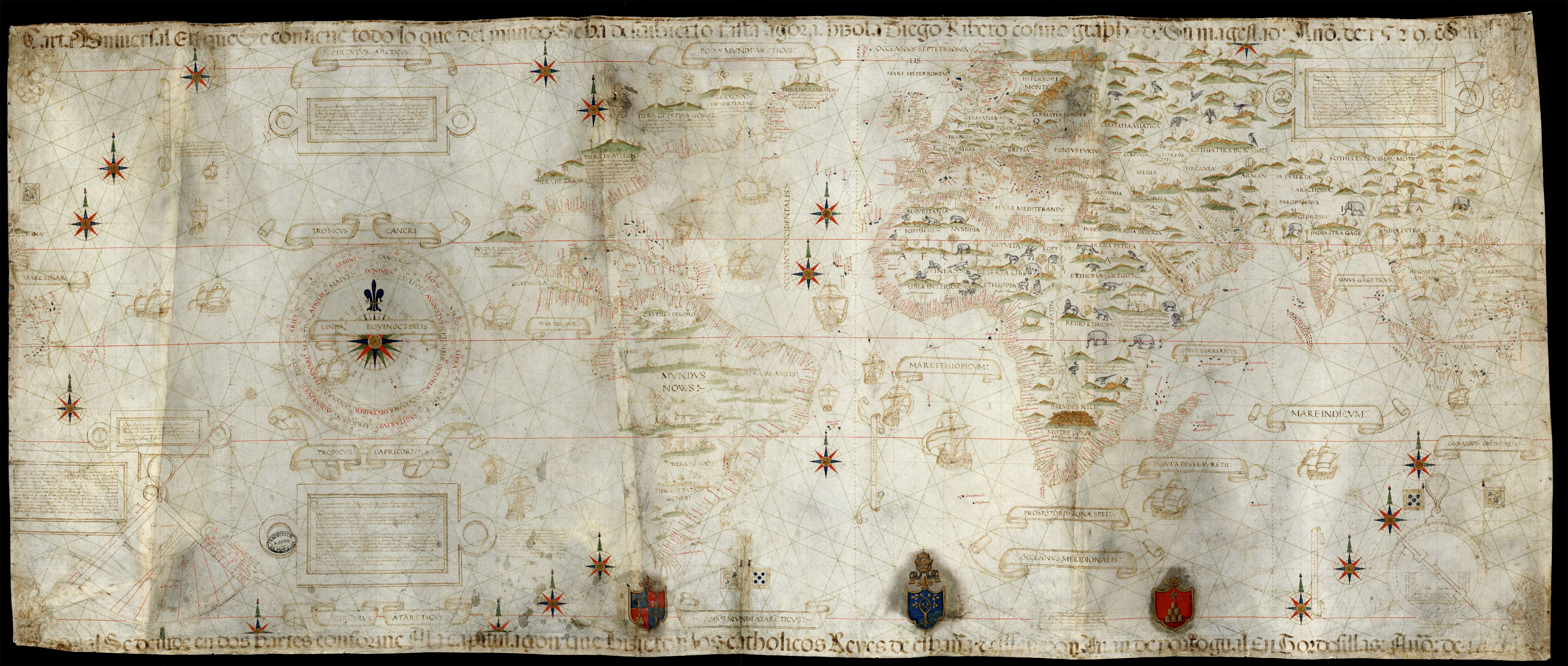 Diogo Ribeiro (d.1533), Planisphere, 1529